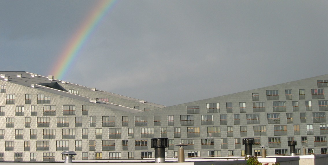 The Whale.